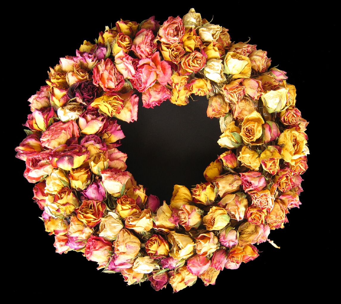 Coronal of dried roses